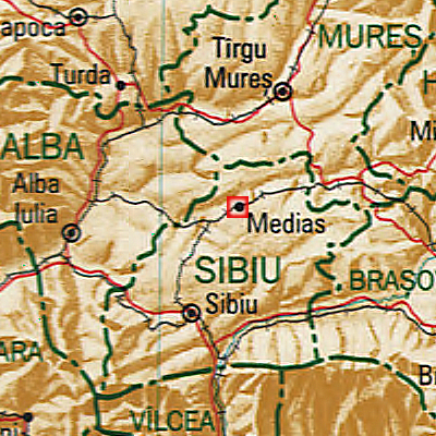 Map of Mediaș Municipality, Romania.